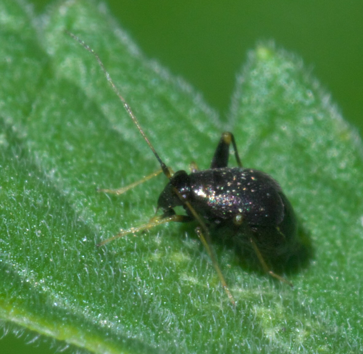 Microtechnites bractatus, Garden Fleahopper, female, Size: 1.7 mm, ID Confidence: 97